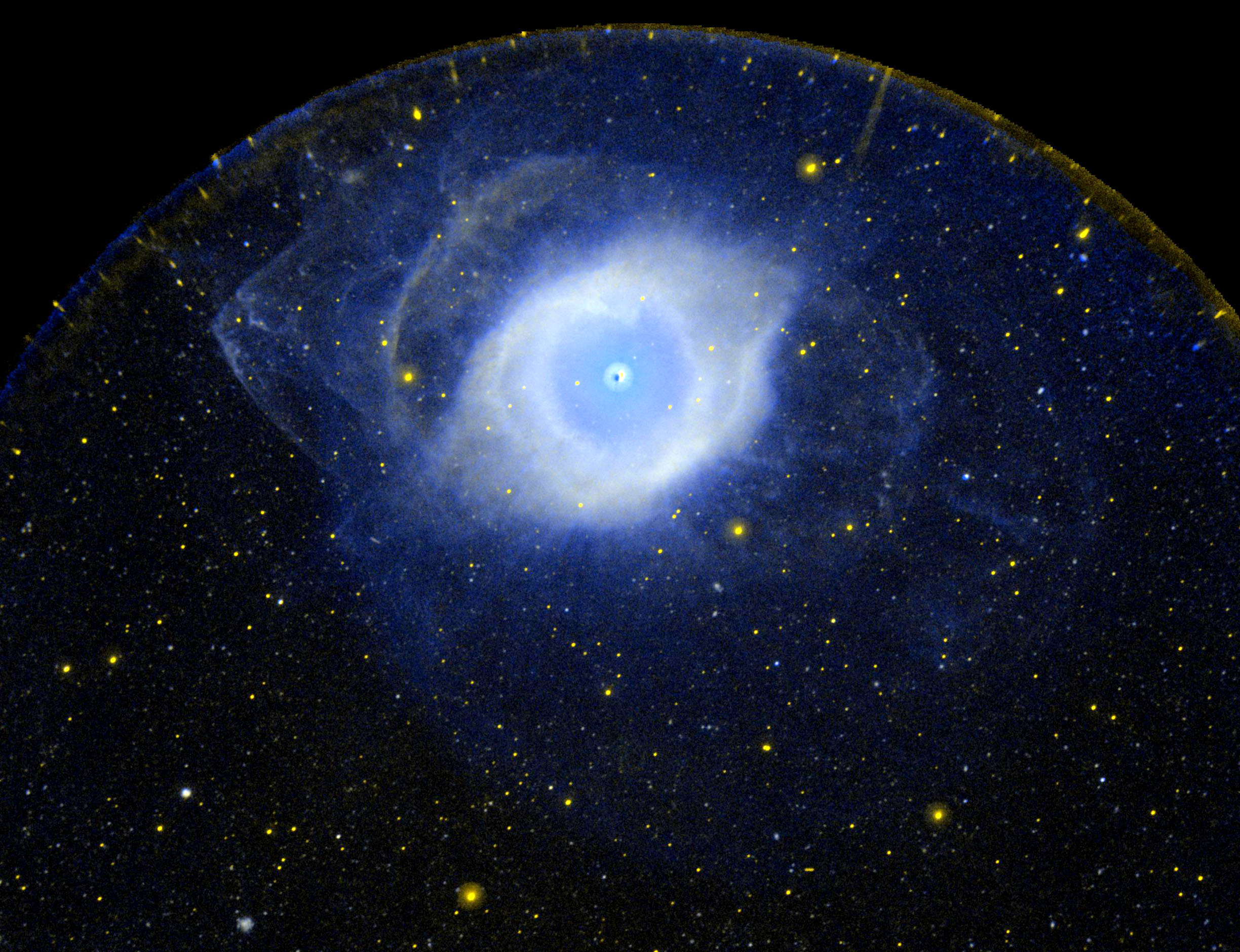 Ultraviolet image of the planetary nebula NGC 7293 also known as the Helix Nebula. It is the nearest example of what happens to a star, like our own Sun, as it approaches the end of its life when it runs out of fuel, expels gas outward and evolves into a much hotter, smaller and denser white dwarf star.